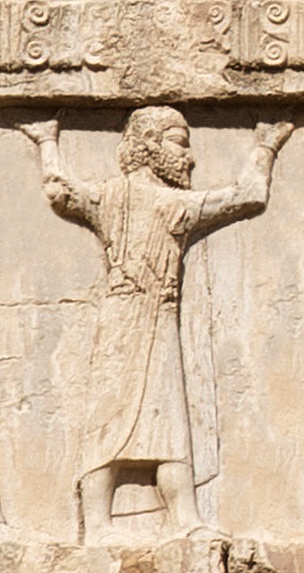 Xerxes I tomb Babylonian soldier circa 470 BCE